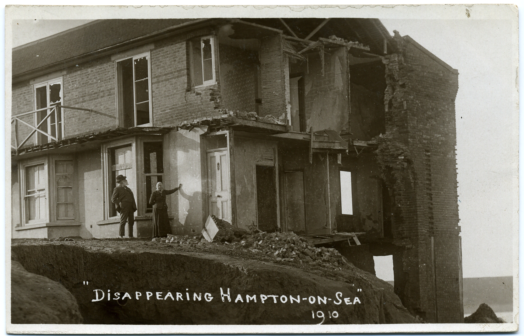 Hampton-on-Sea, Herne Bay, Kent, England: historical photograph of Hampton-on-Sea in the last throes of coastal erosion. This photo is a scan of a postcard in my possession, but it is also reproduced in Easdown, Martin, Adventures in Oysterville: The failed oyster and seaside development of Hampton-on-Sea, Herne Bay (Michael's Bookshop, Ramsgate, Kent, 2008) on page 35, with the caption: "Reid and a lady companion stand in front of the end house in Herncliffe Gardens, which was wrecked by the sea in early 1910". The man in the photo is Edmund Reid, who had previously been the head of Metropolitan Police CID and investigated the Whitechapel murders. The photographer was Fred C. Palmer who is believed to have died in Hungerford 1941; (fl.1892−1935). Border The remaining border of this image is important for researchers of this photographer. Some photographers trimmed their images more than others, and Palmer has a reputation for producing smaller postcards than other early 20th century UK photographers. He took his own photos, developed them in-house onto postcard-backed photographic paper and trimmed them himself. It is worth adding that during hand-developing the border is actively masked with equipment which both crops the picture and causes the white frame or border to appear on the paper. This frame is part of the design and is one of the reasons why the quality of Palmer's work is so interesting, and why there is an article and category for him on English Wiki. Researchers need to see exactly where the edge of the postcard is. Thank you for taking the time to read this.